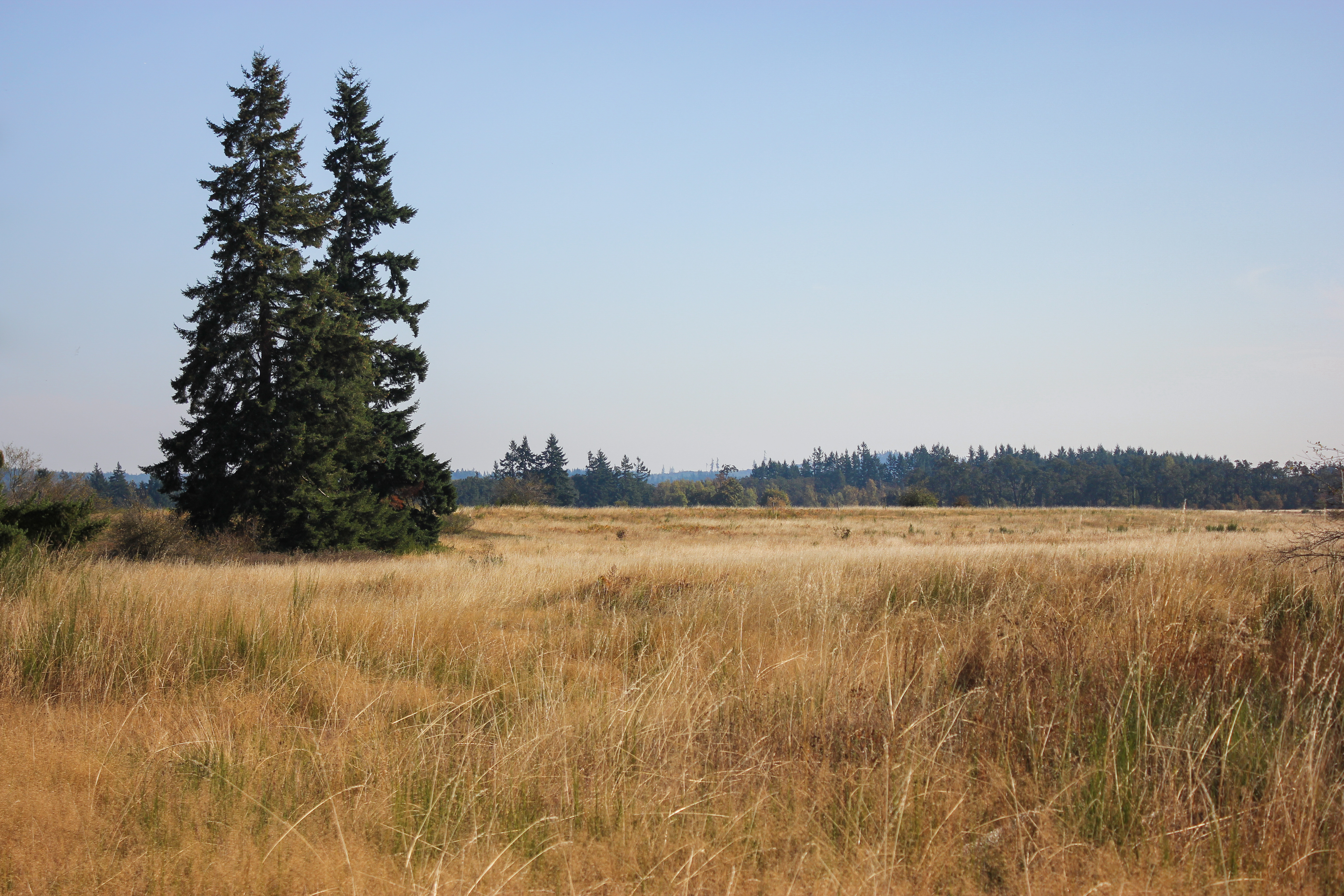 Mazama Pocket gopher habitat: South Puget Sound Prairies